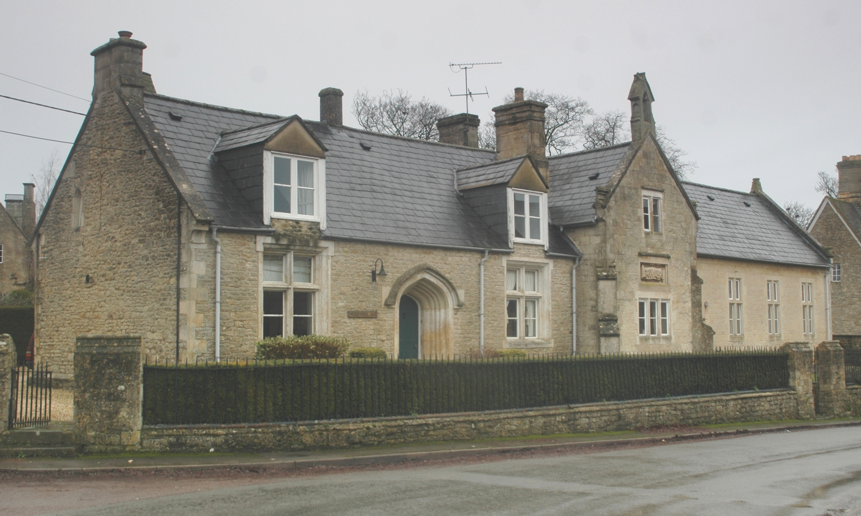 Former village school, Bourton, Vale of White Horse, England